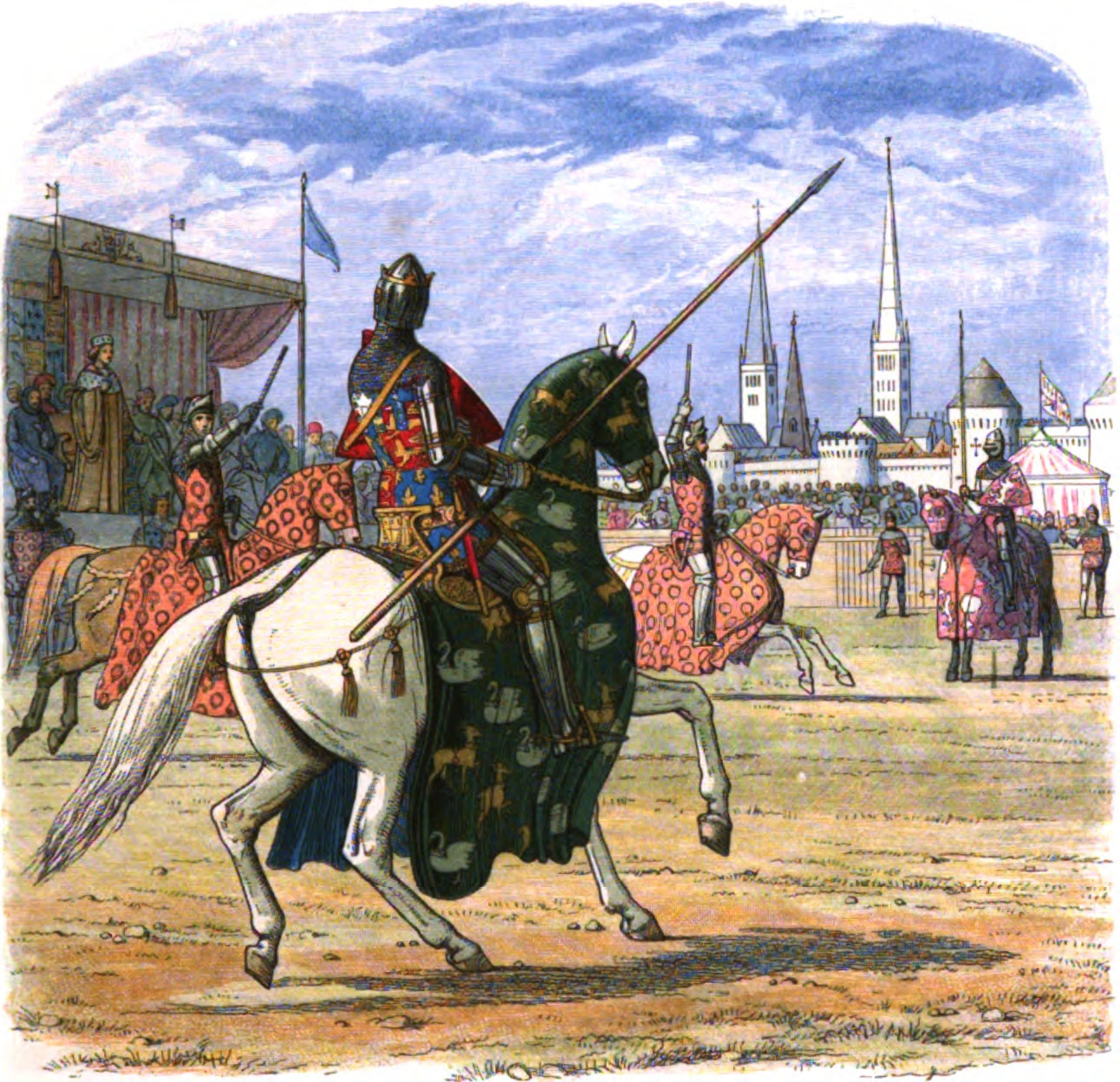 Richard II stops the duel between Henry Bolingbroke, 1st Duke of Hereford, and Thomas de Mowbray, 1st Duke of Norfolk.